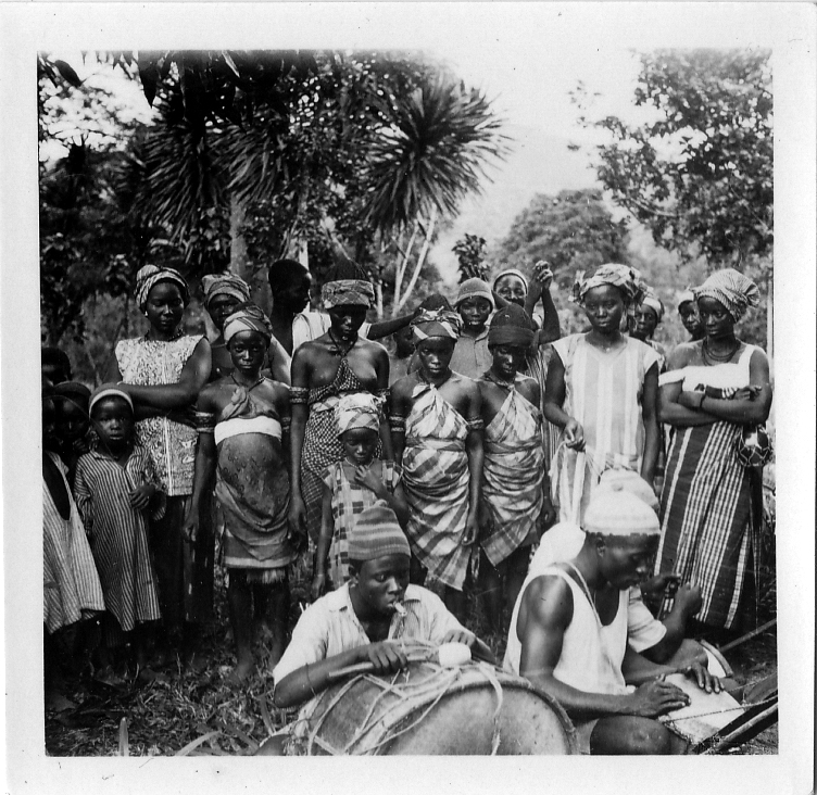 Musicians, Panguma (Sierra Leone), 1936